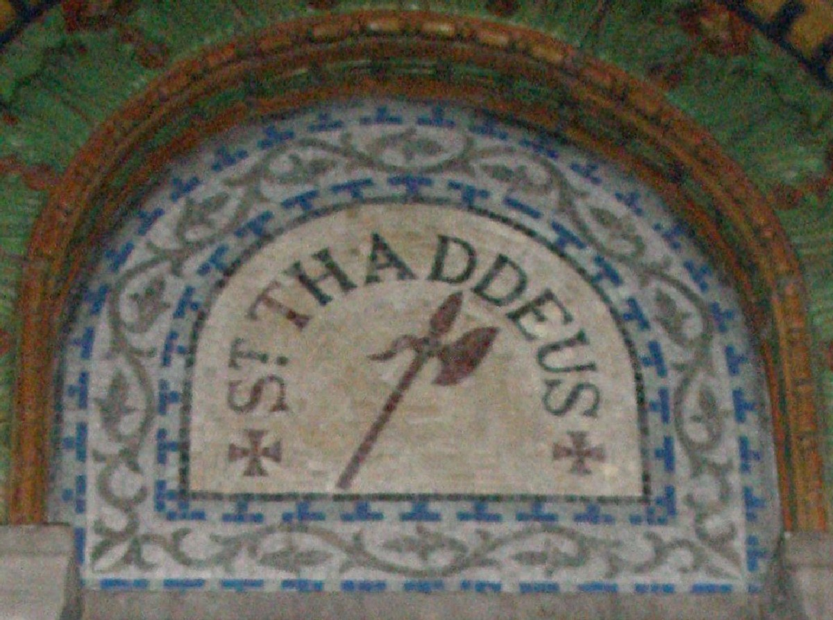 Thaddeus mosaic at St. Francis de Sales Roman Catholic Church